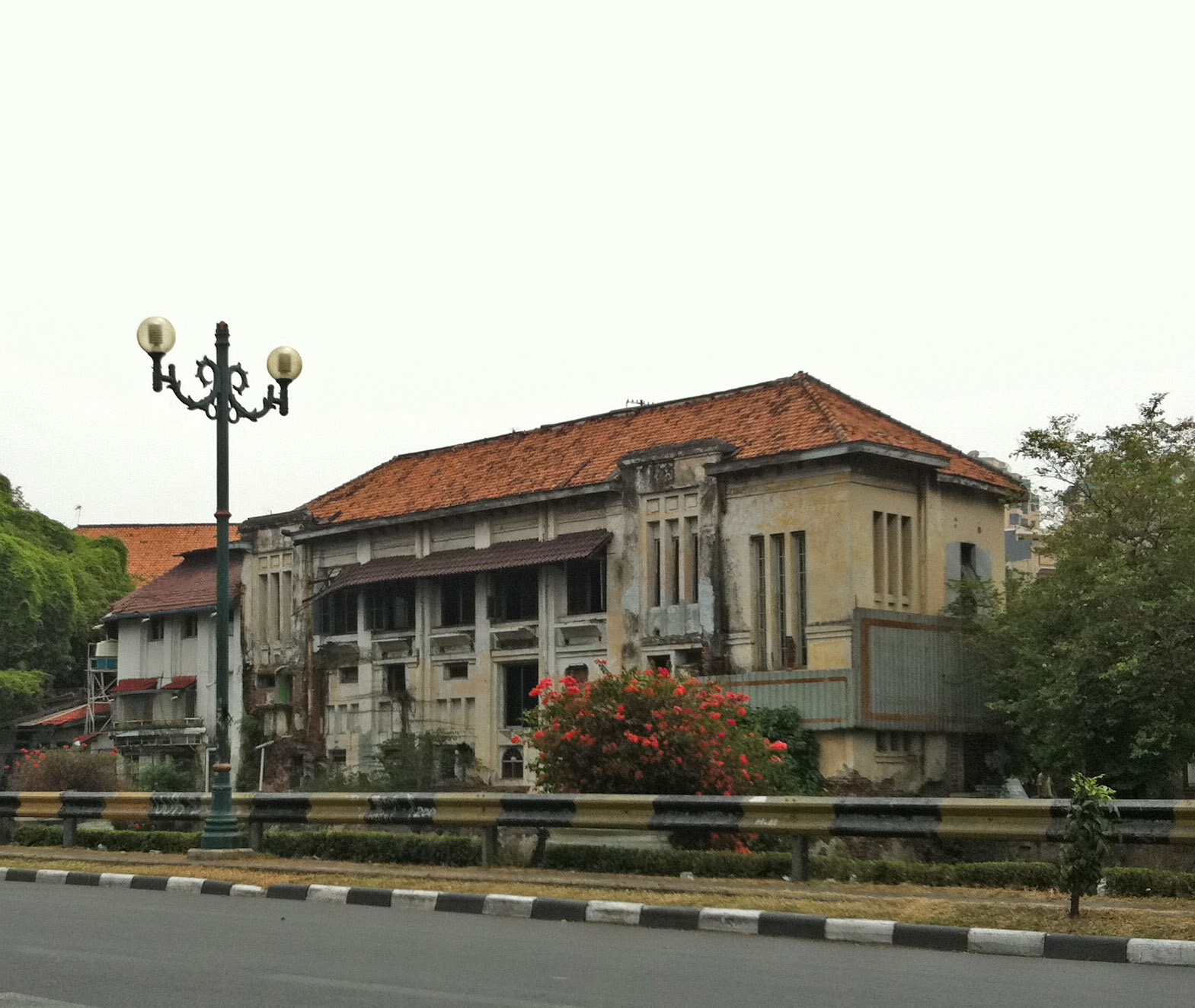 An abandoned colonial office at the Banjir Kanal (Jakarta, Indonesia)